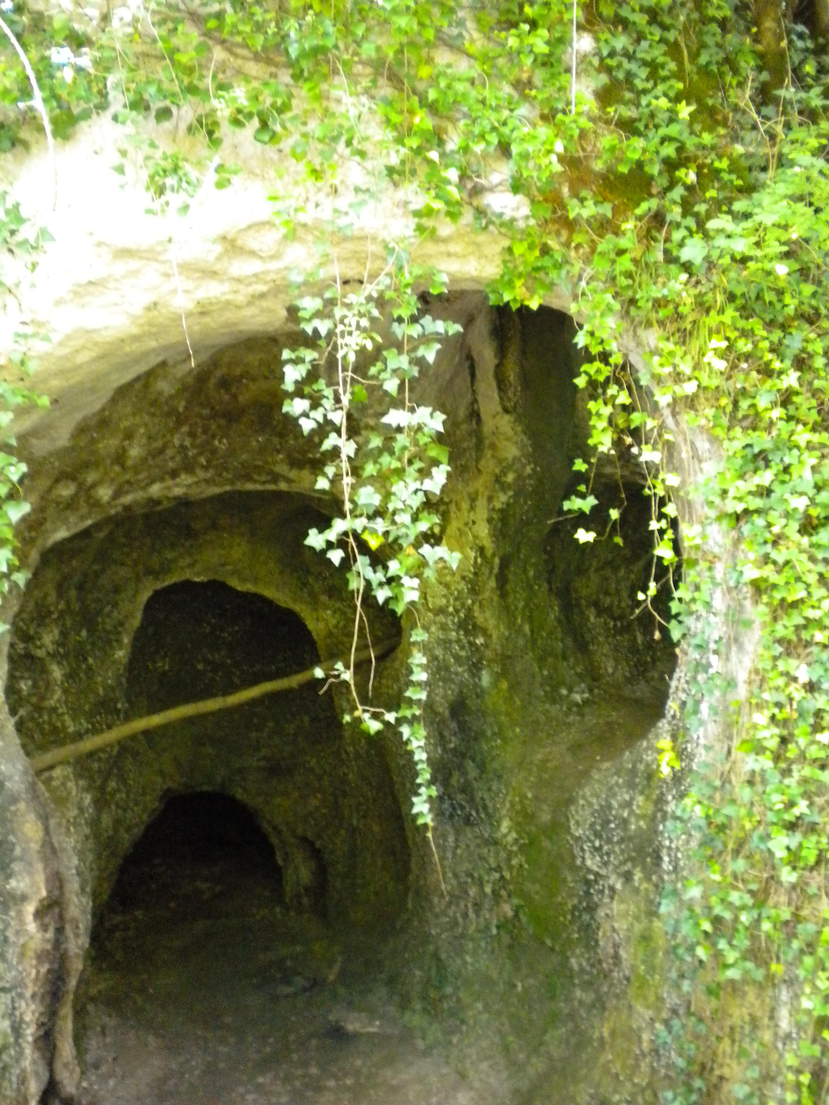 The Rochereil Cave near Lisle in the French Département Dordogne. This is a prominent site of the Upper Paleolithic having delivered thousands of artefacts and four humain remains.